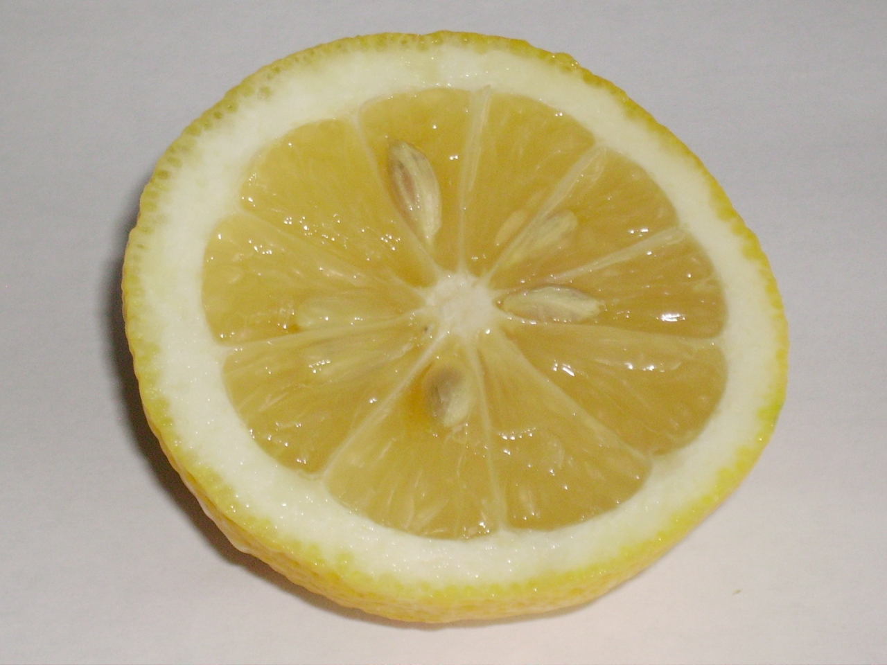 A slice of lemon